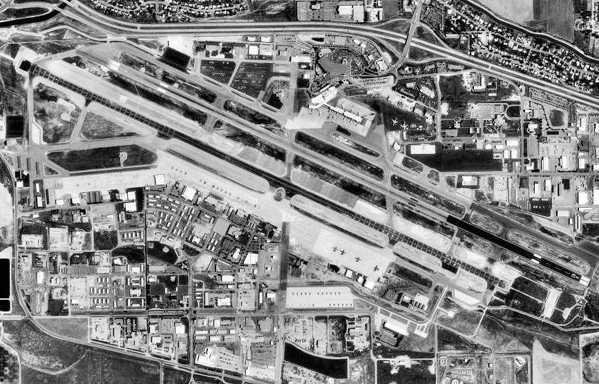 USGS digital orthophoto of Boise Airport in Idaho